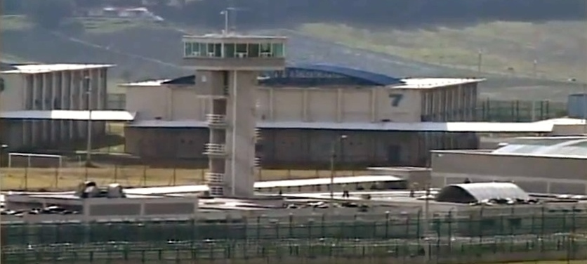 Cárcel Cómbita Colombia